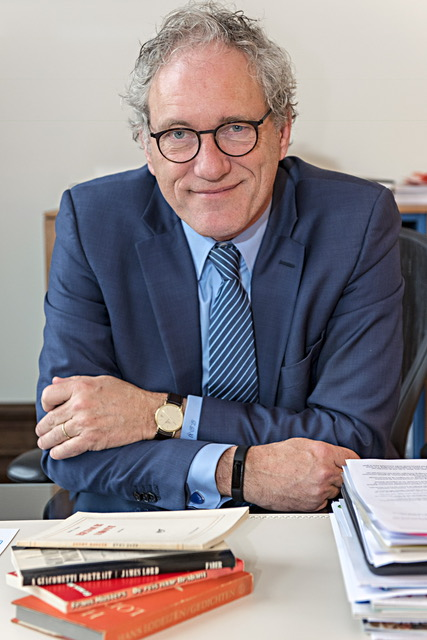 Photo Thom de Graaf 2018